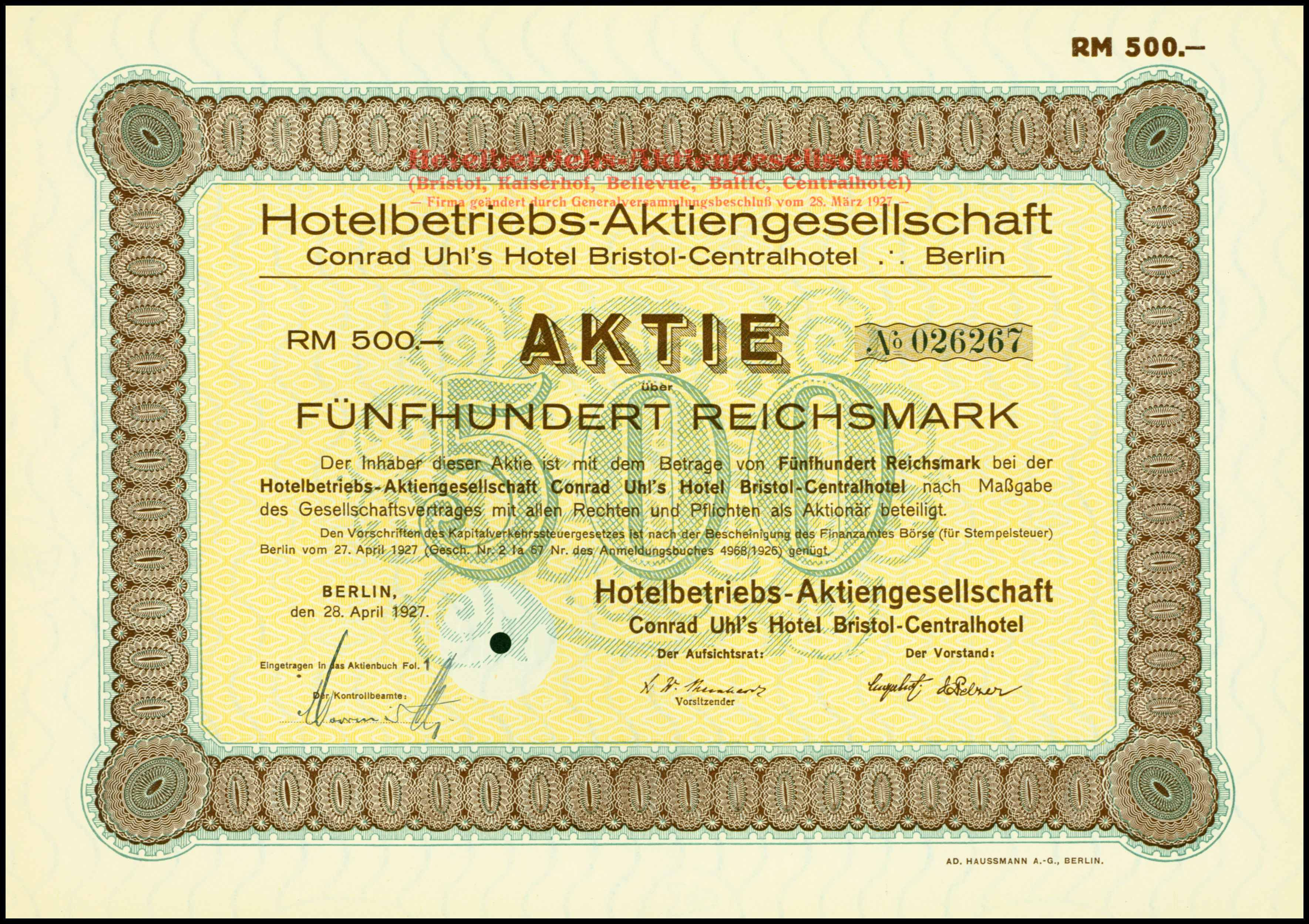 Share of the Hotelbetriebs-AG, issued 28. April 1927